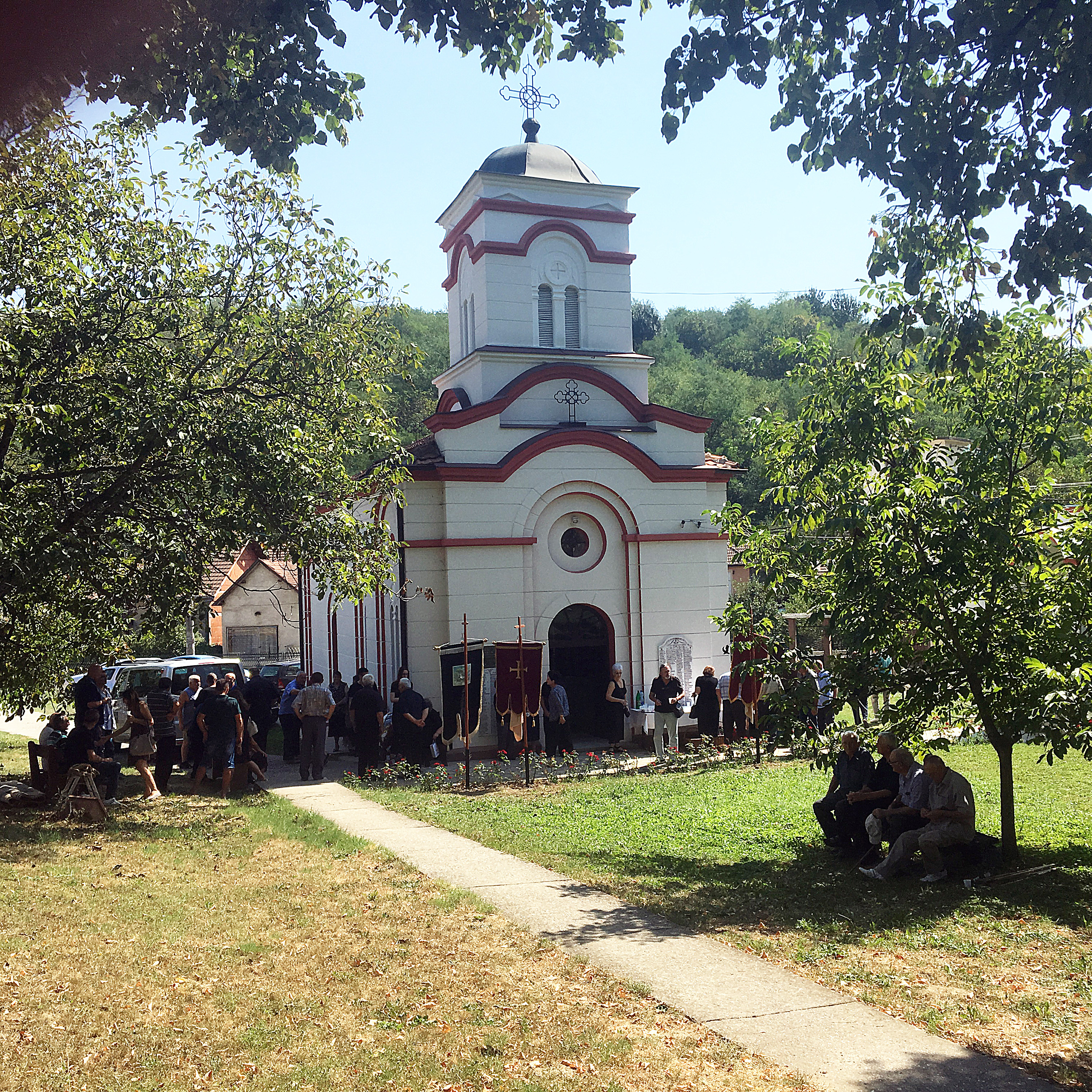 Orthodox Church of St. prophet Jeremiah in Miloševo, Serbia